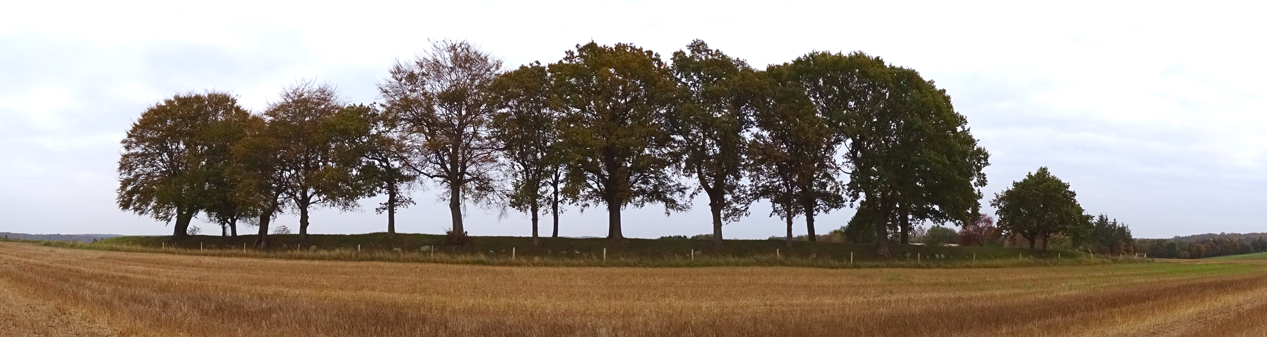 The Kellerøddysse. Situated on a hill near Tystrup Lake, the dolmen is 125 meters long, and many of the original stones remain.